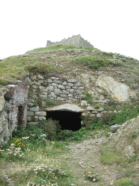 Benson's Cave Thomas Benson, MP for Barnstaple and Sheriff of Devon, was the owner of Lundy in the 18th century. He was a bit of a rogue, it seems, and involved in smuggling and other scams. The cave, just below Marisco Castle, is reputedly one of his contraband stores. The Castle is visible on the horizon.